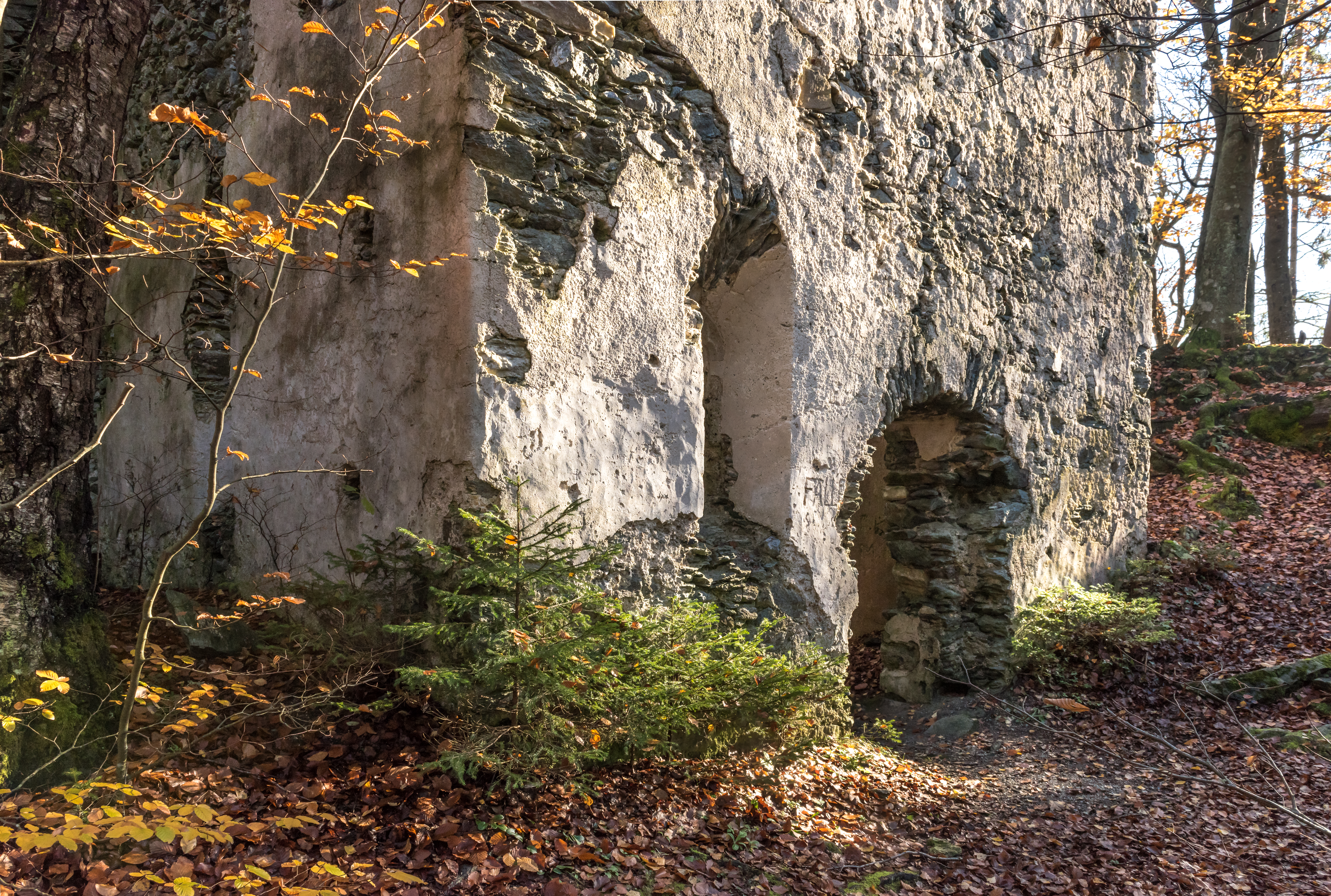 Western window and portal of the chapel ruin of the "black castle" Hohenwart in Köstenberg, market town Velden am Wörther See, district Villach Land, Carinthia, Austria, EU